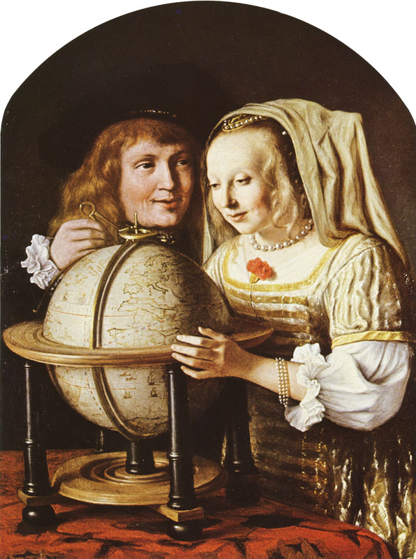 Lambert Doomer. Young couple with a globe 72.4 x 54 cm Oil on panel Robert Hull Fleming Museum of the University of Vermont, Burlington